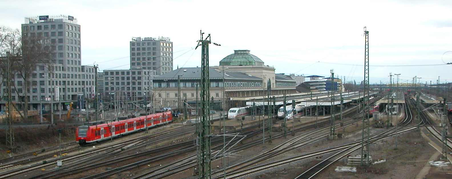 Mannheim - Mainstation